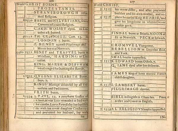 A table from the beginning of the world to this day (1593), showing chronological table layout; author John More (d. 1592), editor Nicholas Bownde.